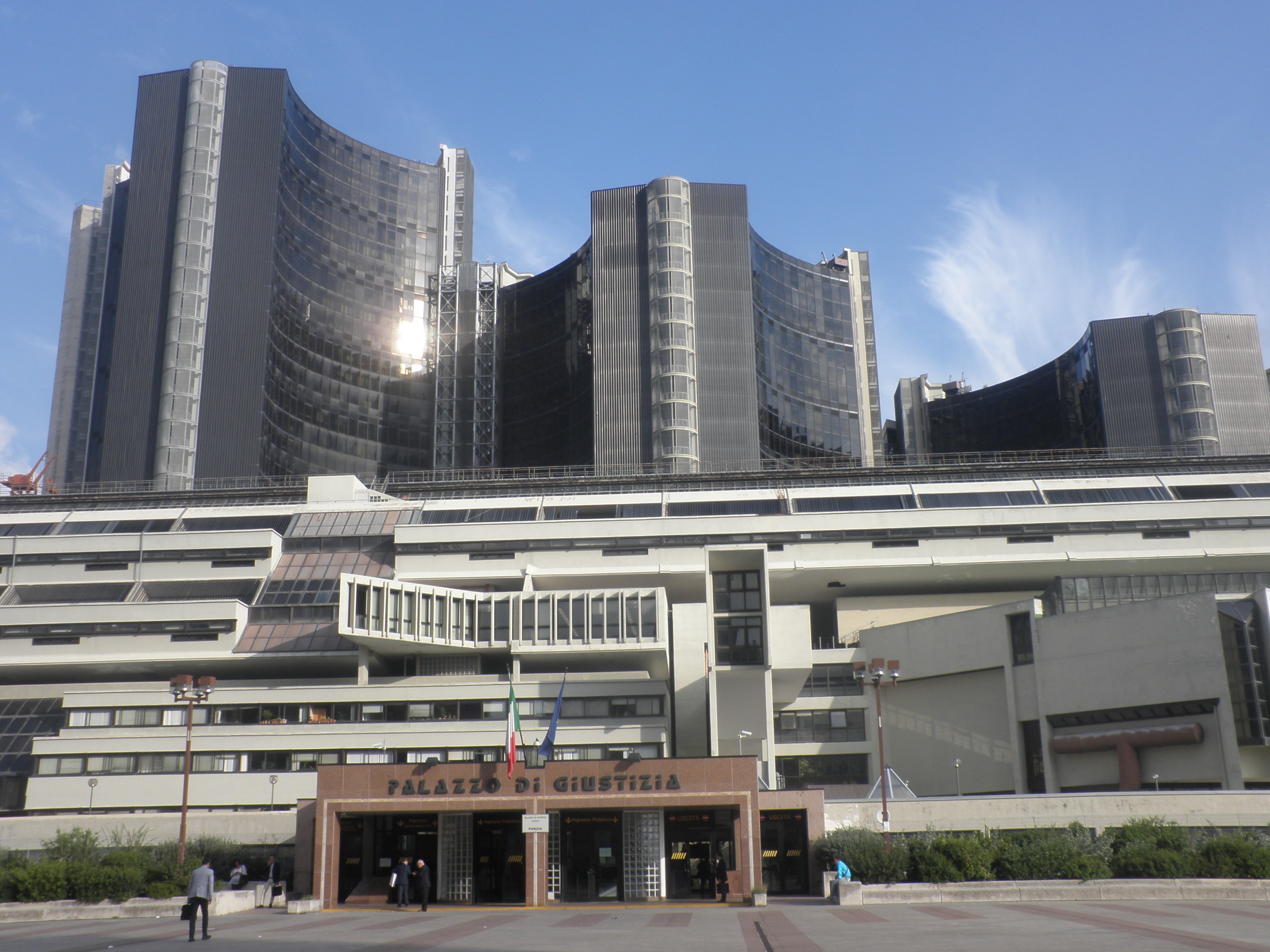 Palace of Justice in Naples (Italy)